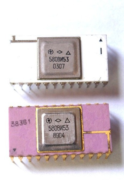 580VI53 (military version, equivalent to Intel 8253)